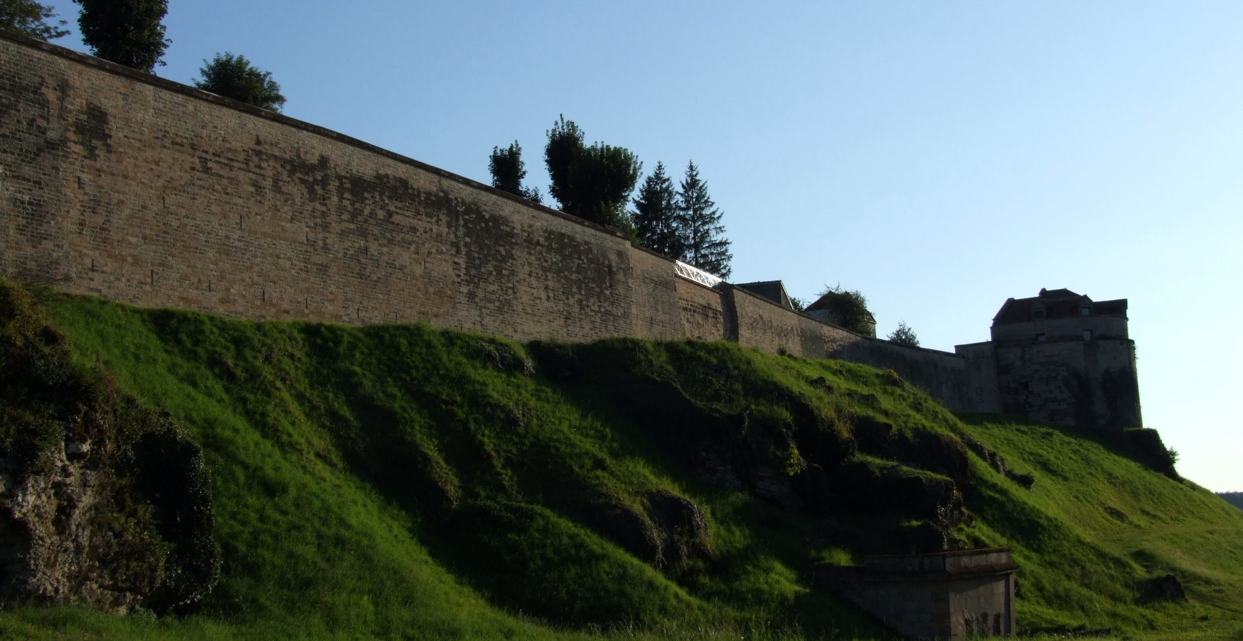 Langres, FRANCE